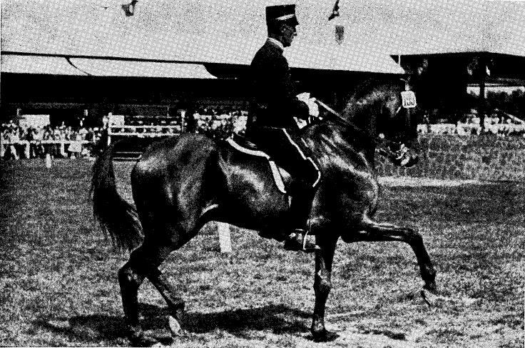 Swedish horesrider Sven Colliander with the horse "Kål"